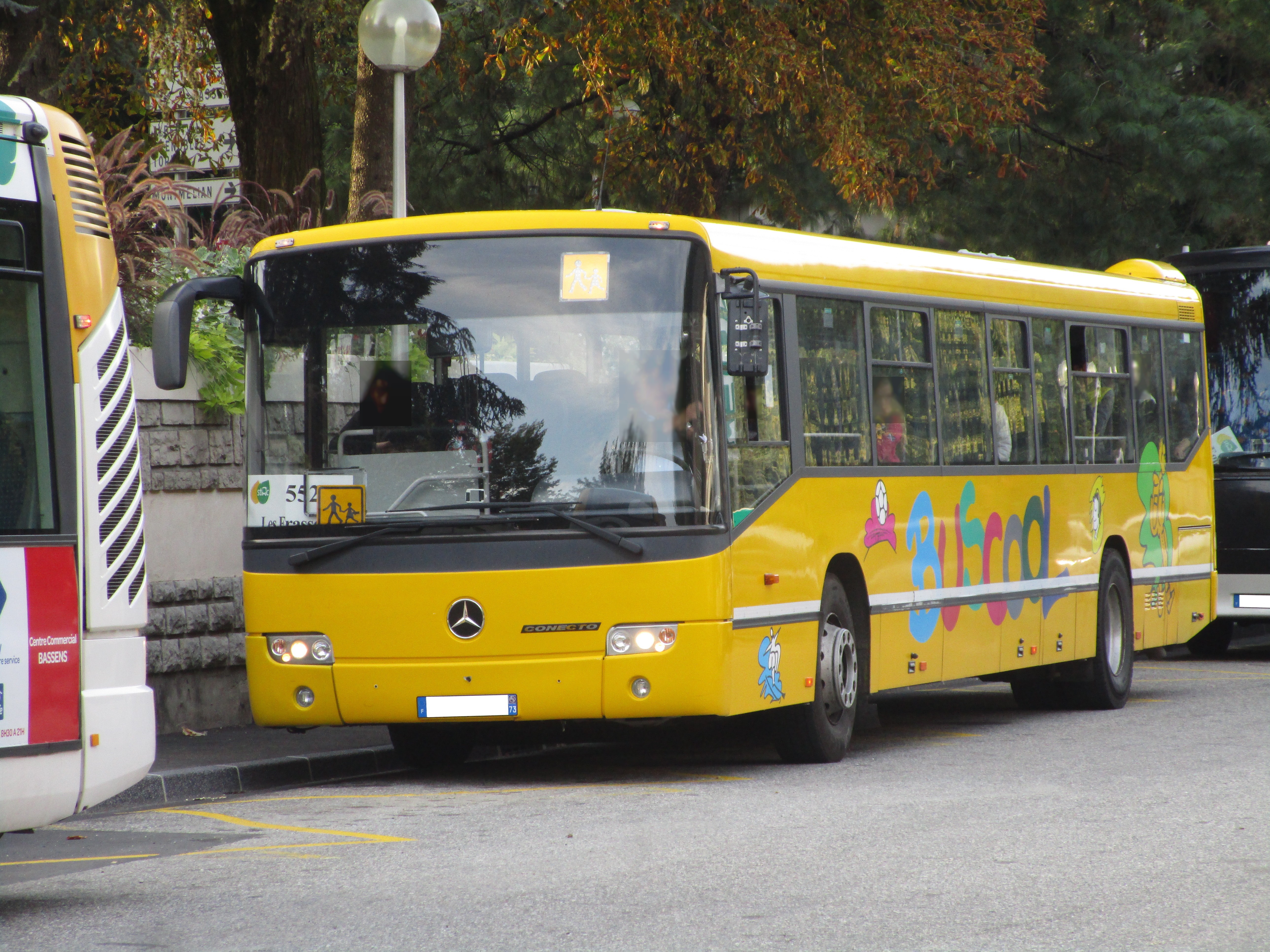 The bus Mercedes-Benz Conecto n°12327 of Buscool, on the line 552 (Collège Jean Mermoz, Barby↔Les Frasses, Saint-Jeoire-Prieuré), at the call Challes Centre in Challes-les-Eaux on October 7, 2016.